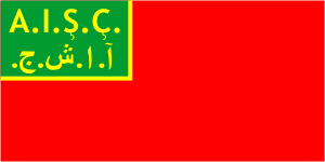 Flag of AzSSR since December 1922